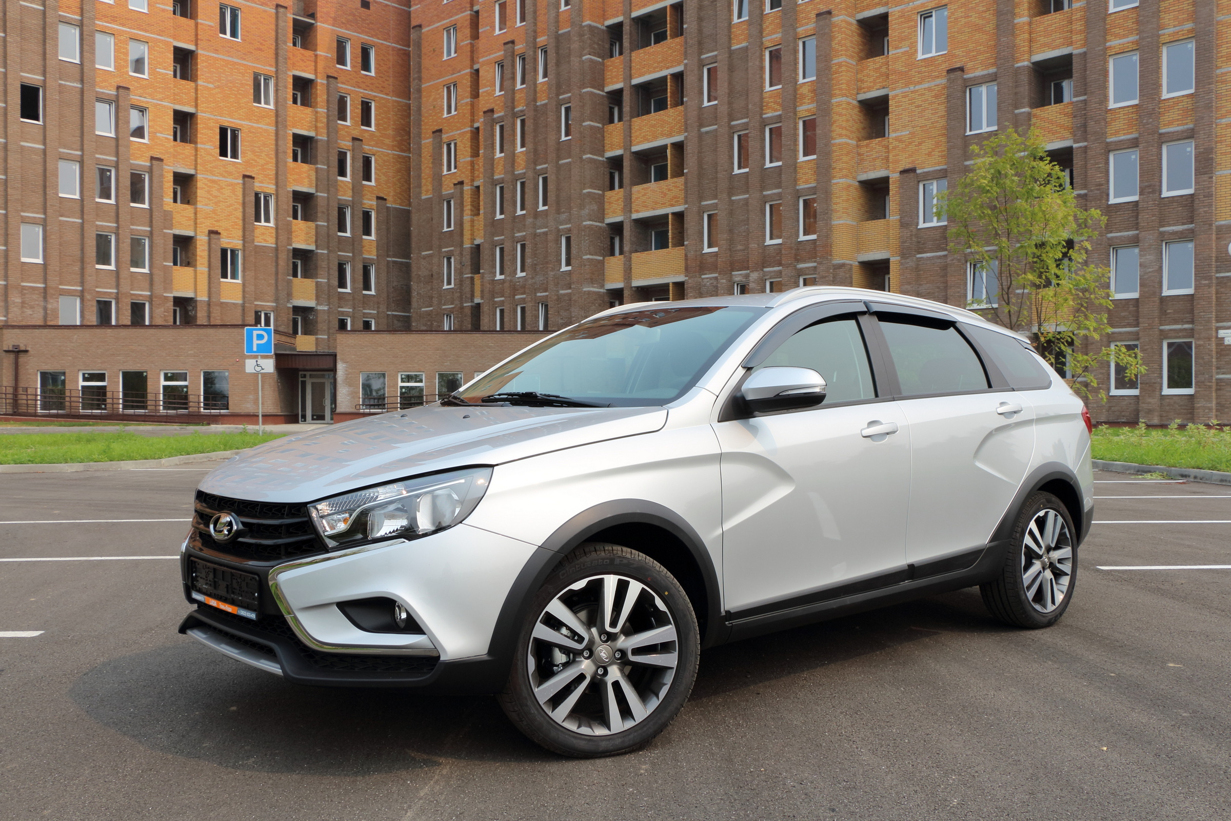 Lada Vesta SW Cross. Photographed in Tomsk, Russia.